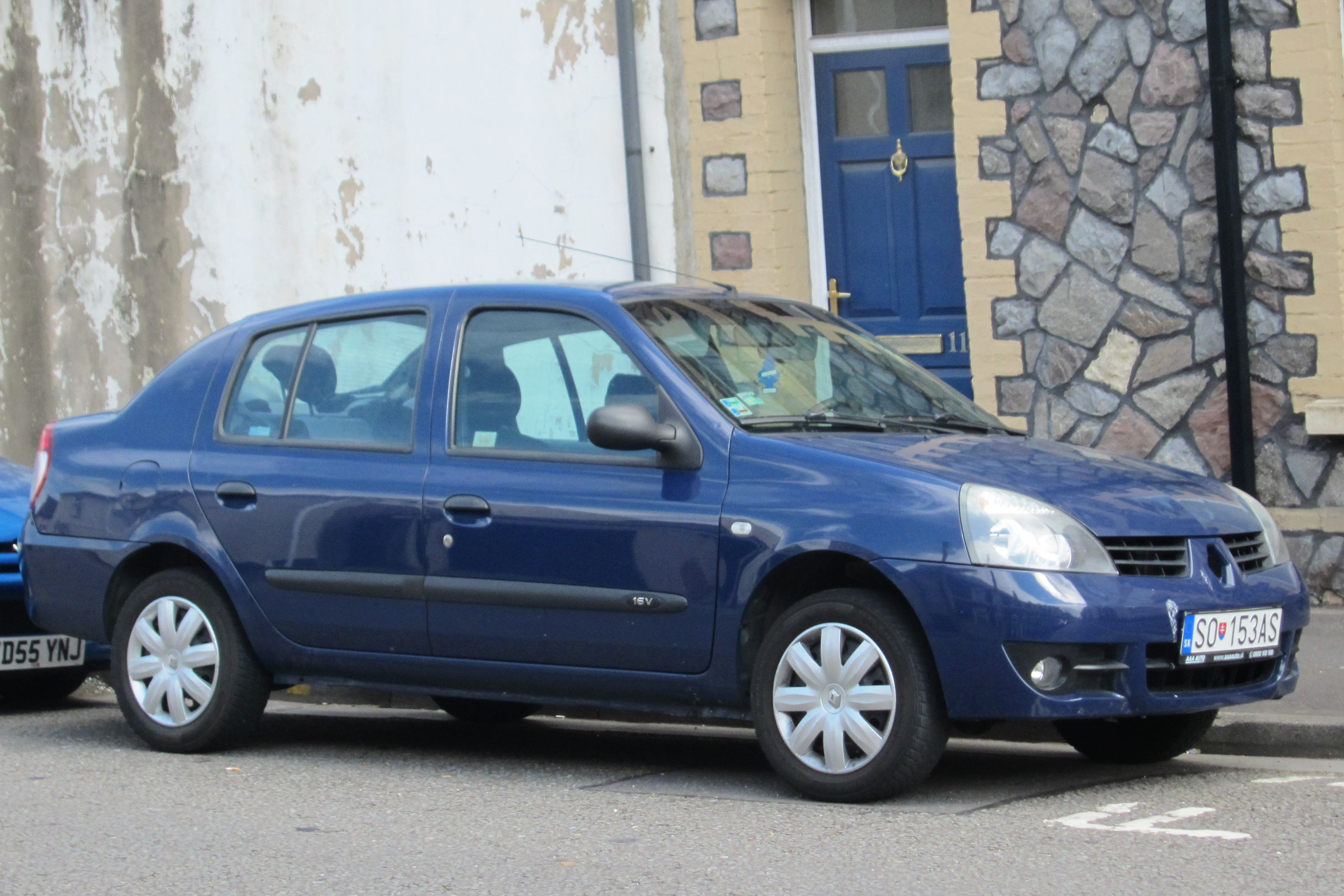 Renault Symbol I in Adamsdown